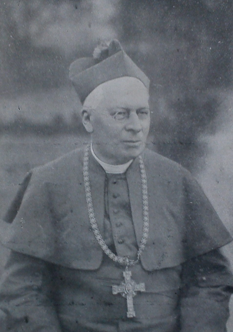 Eduard Likowski. Around 1910.